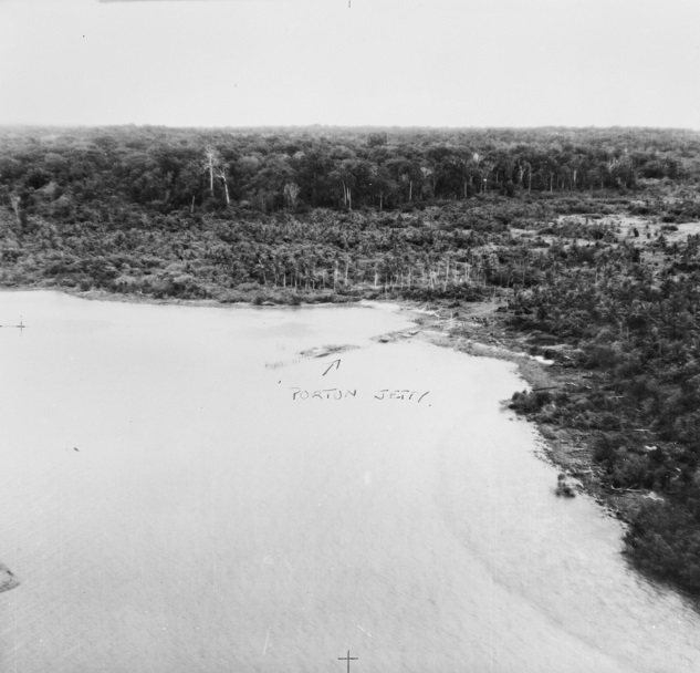 Aerial view of the jetty at Porton Plantation in northern Bougainville